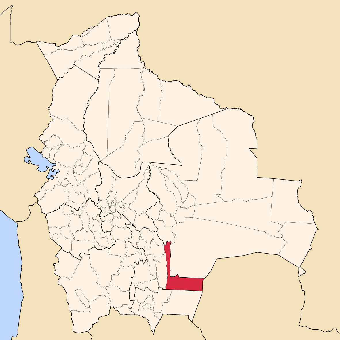 Map of Bolivia showing Luis Calvo province, Chuquisaca